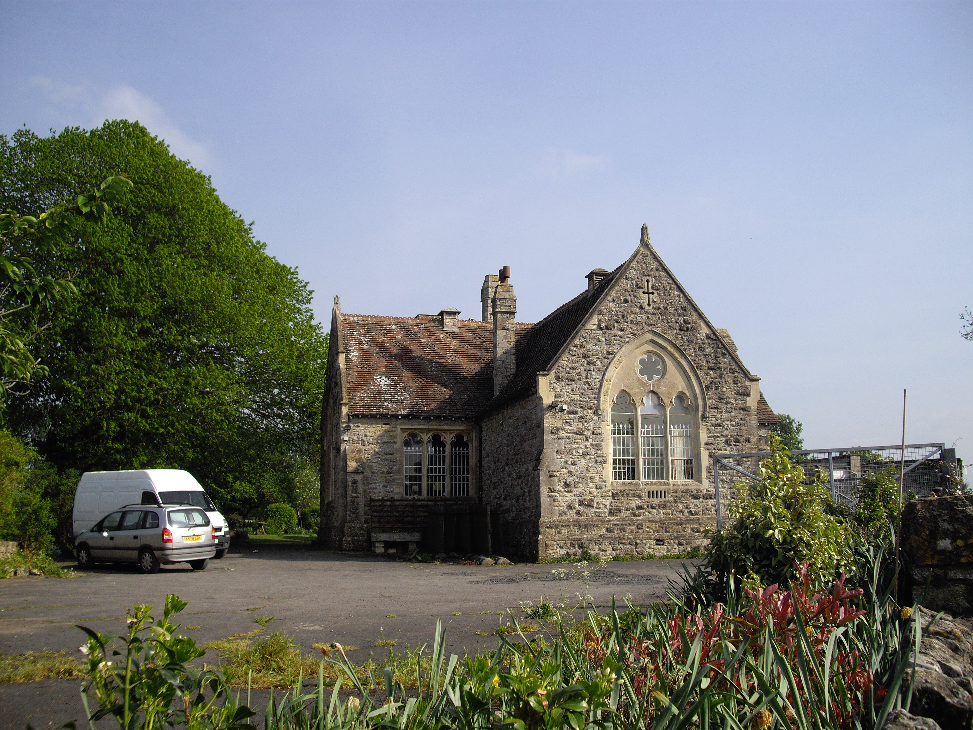 Former school, now antique centre, Blackford